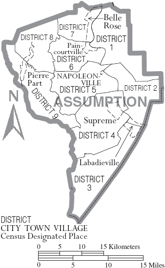 Map of Assumption Parish, Louisiana, United States with municipal and district boundaries